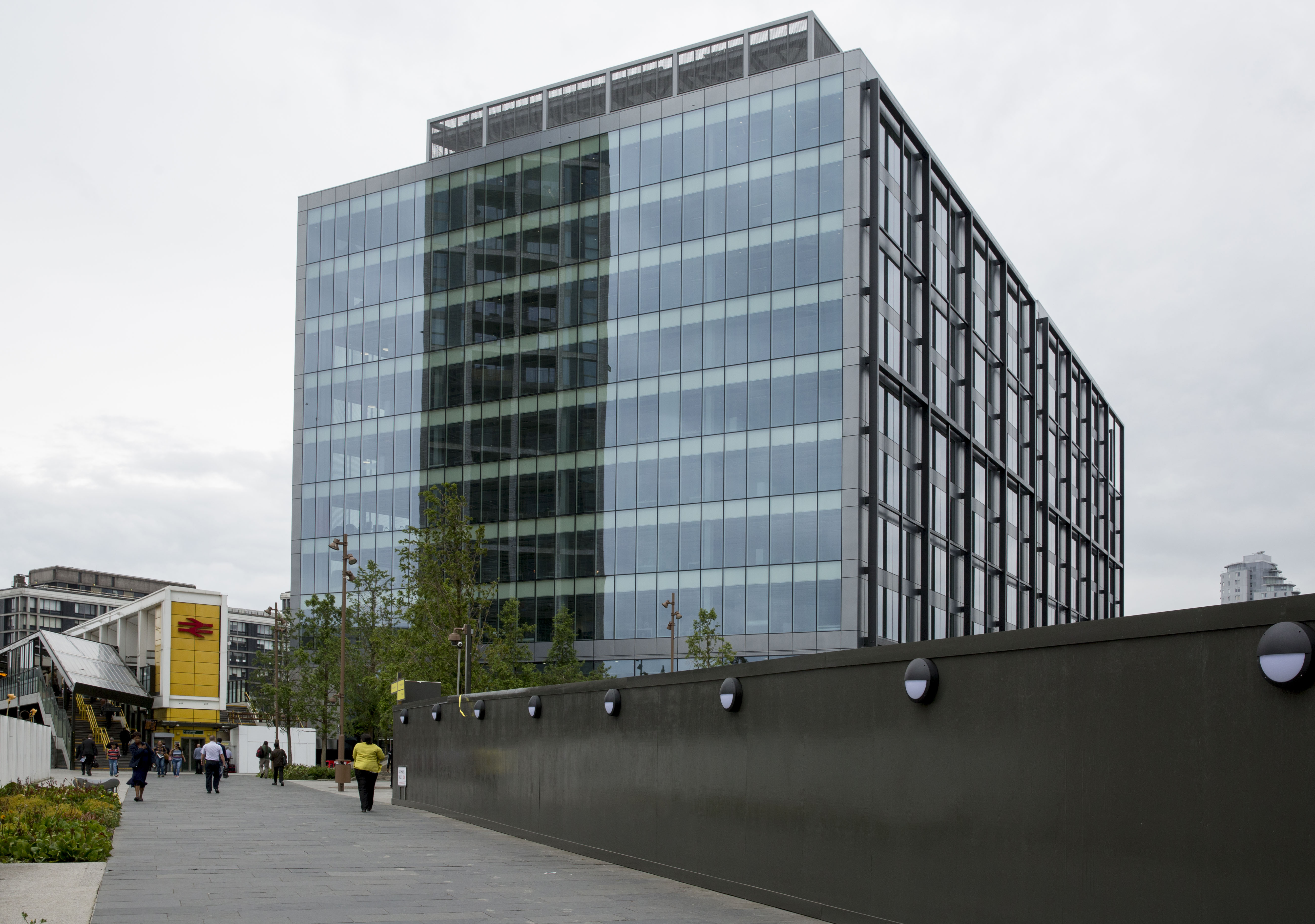 HM Revenue and Customs’ (HMRC) first regional centre in Croydon is officially open, the Executive Chair announced today, at the department’s annual stakeholder conference in London.